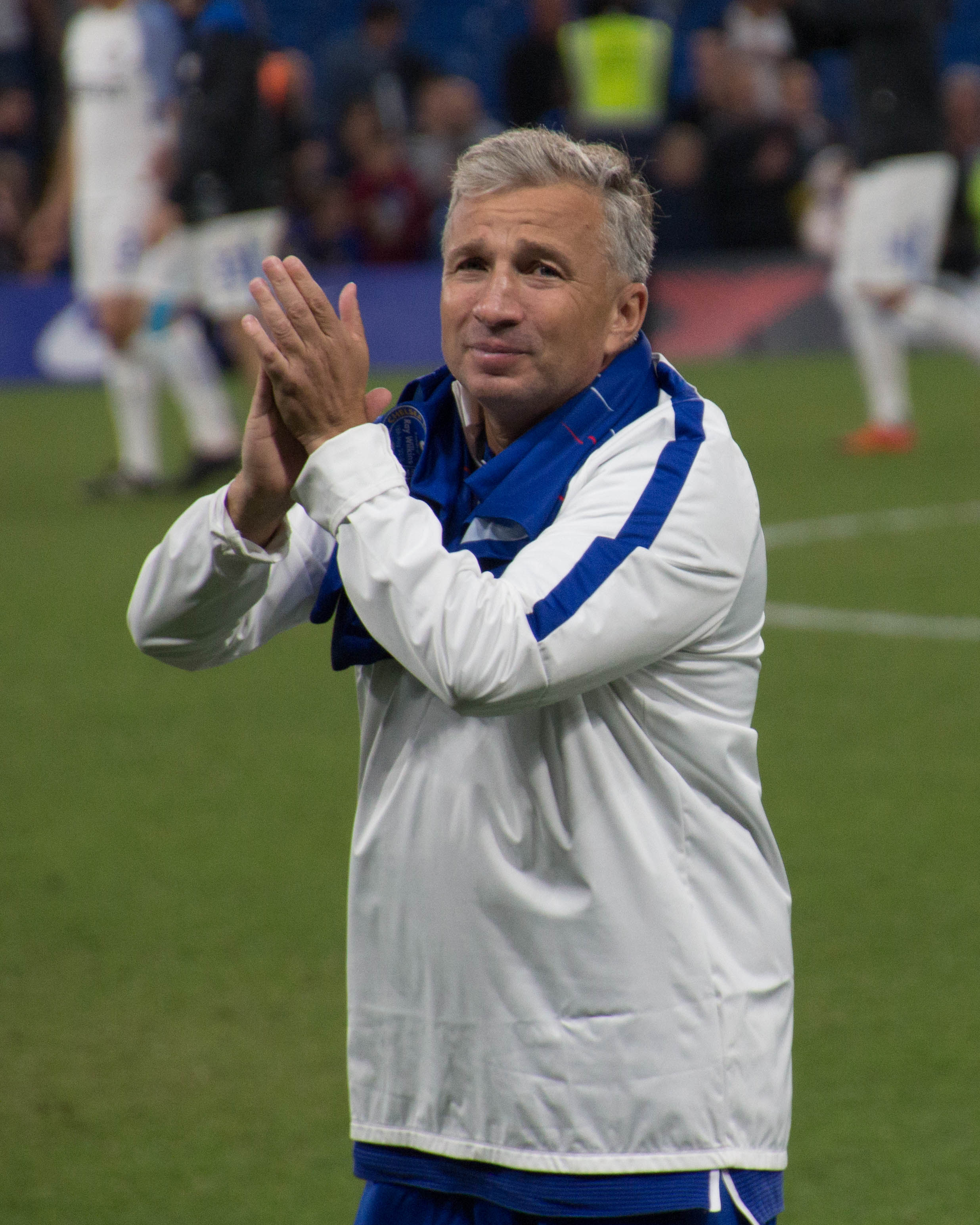 Dan Petrescu with Chelsea Legends after a friendly match against Inter Forever at Stamford Bridge